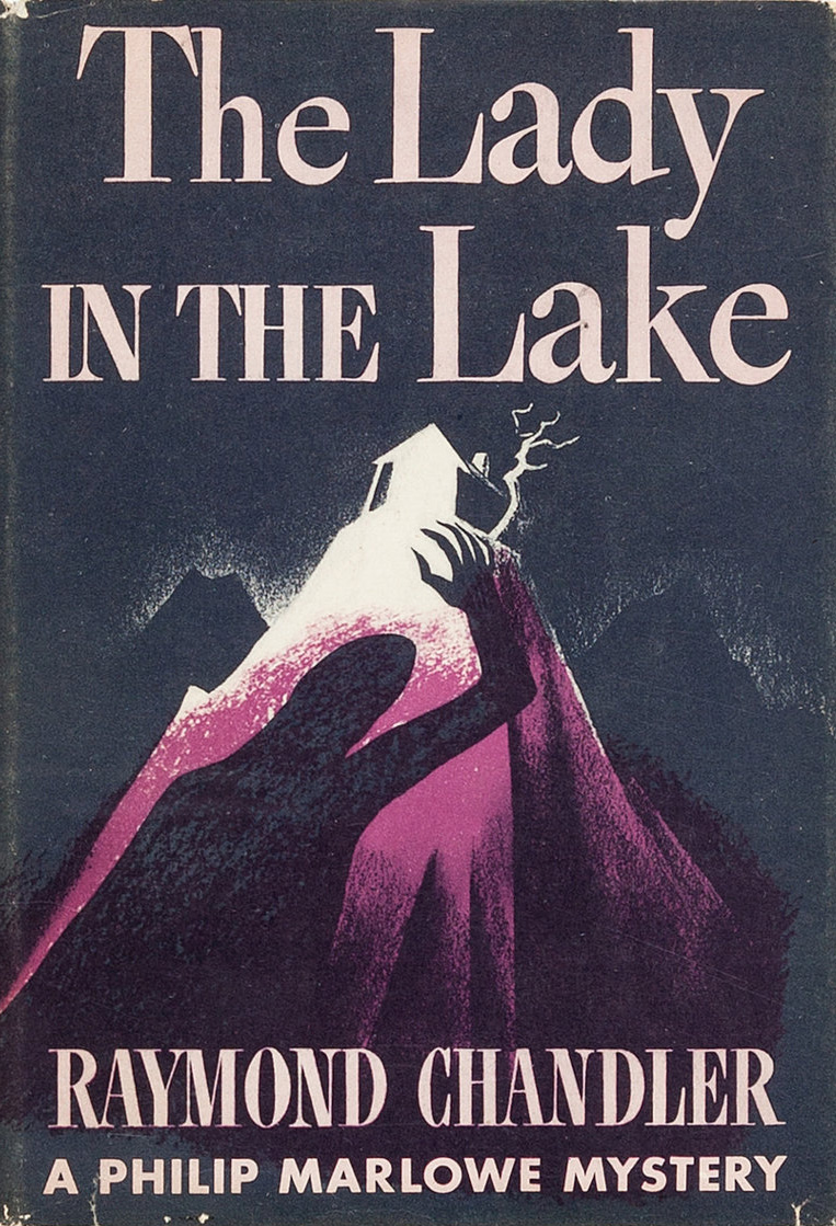 Cover of the dust jacket of Raymond Chandler's The Lady in the Lake (1943), published by Alfred A. Knopf.